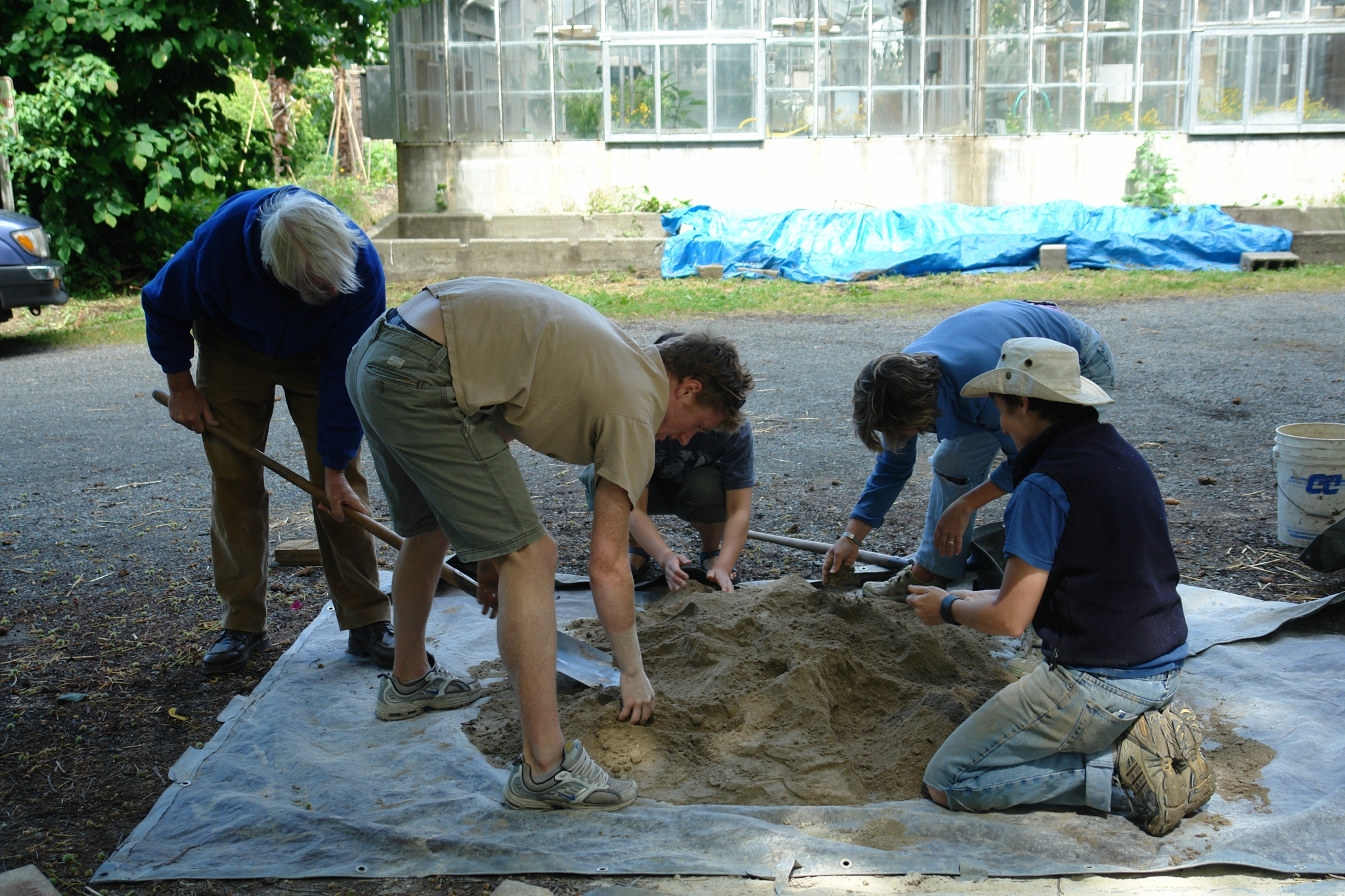 Mixing cob for an oven at the University of Washington.